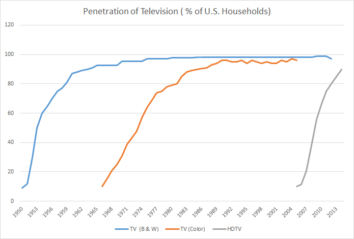 created by self in Excel using data freely available at Google docs